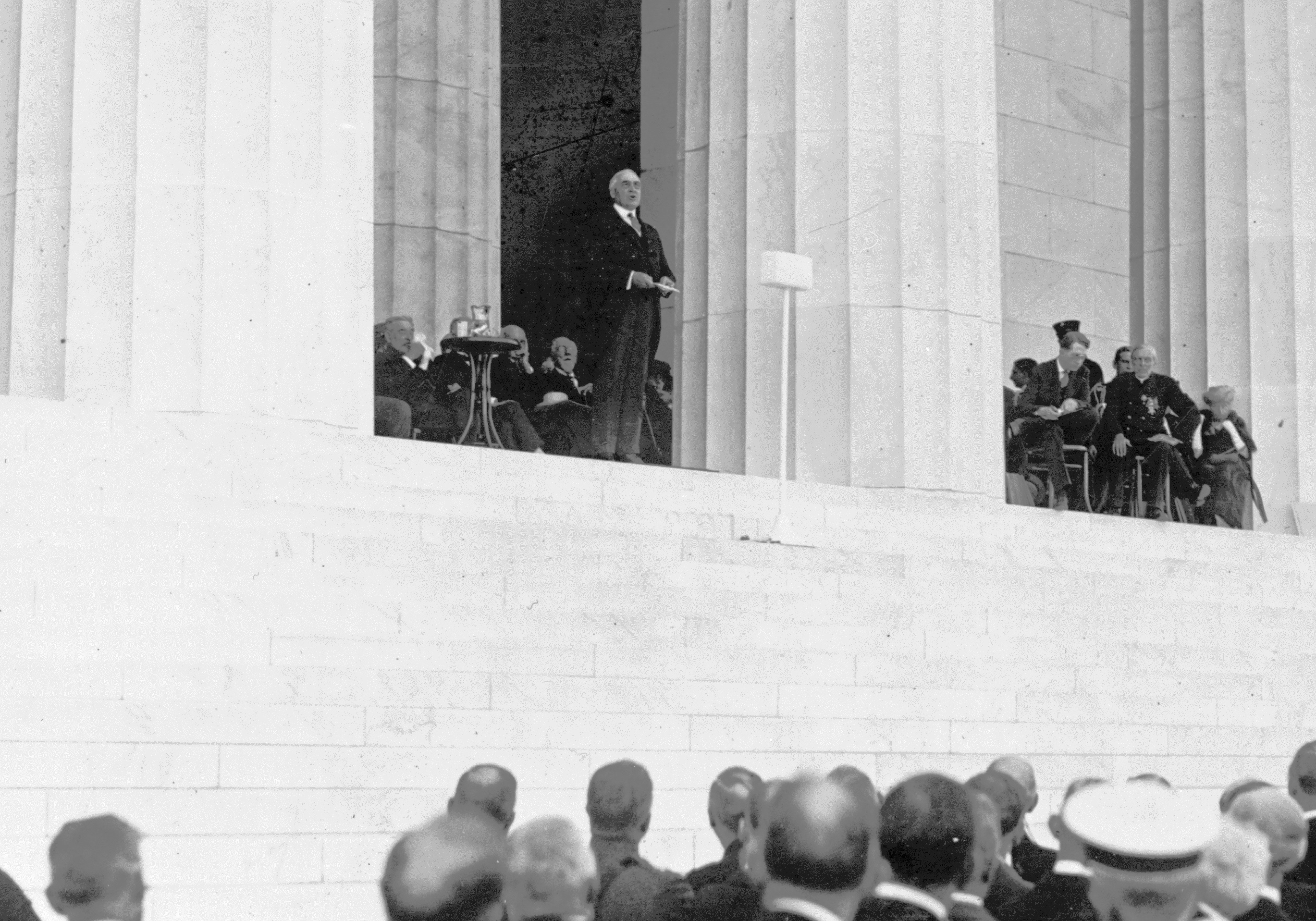 President of the United States Warren G. Harding speaks at the dedication of the Lincoln Memorial